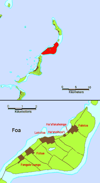 map of Foa Island, Ha'apai Group, Tonga, Pacific Ocean